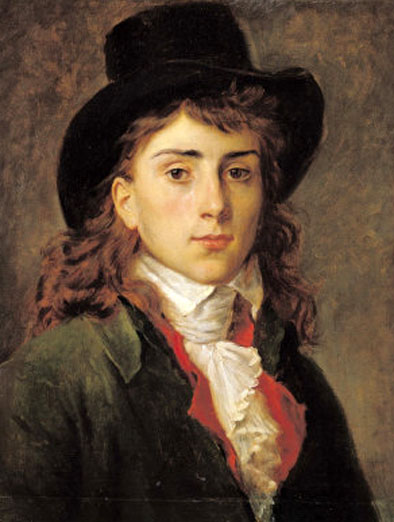 Portrait of French painter Antoine-Jean Gros (1771–1835) at the age of 20 years